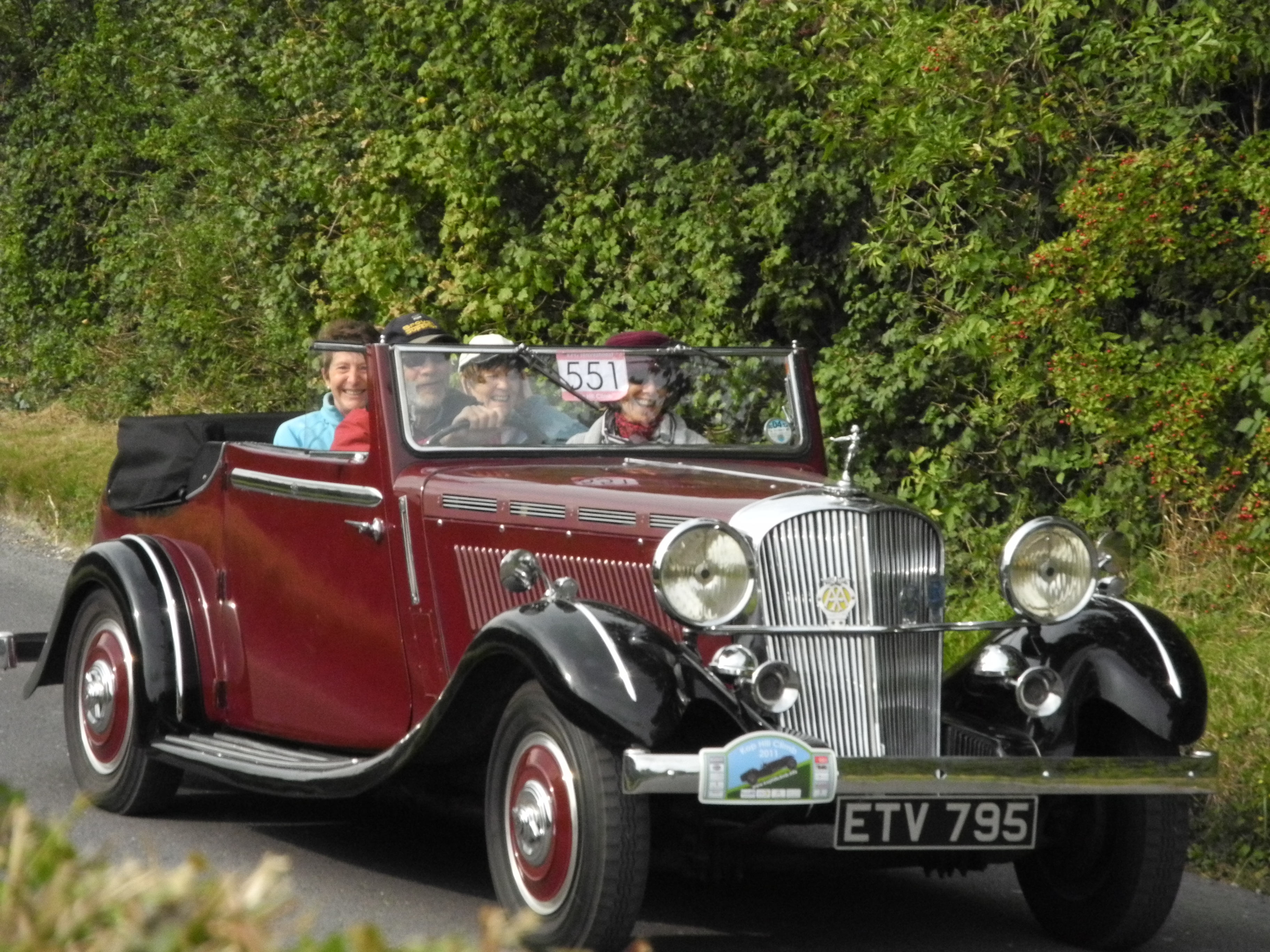 1938 Brough Superior6 Cylinder 3500cc drop head coupéKop Hill 2015